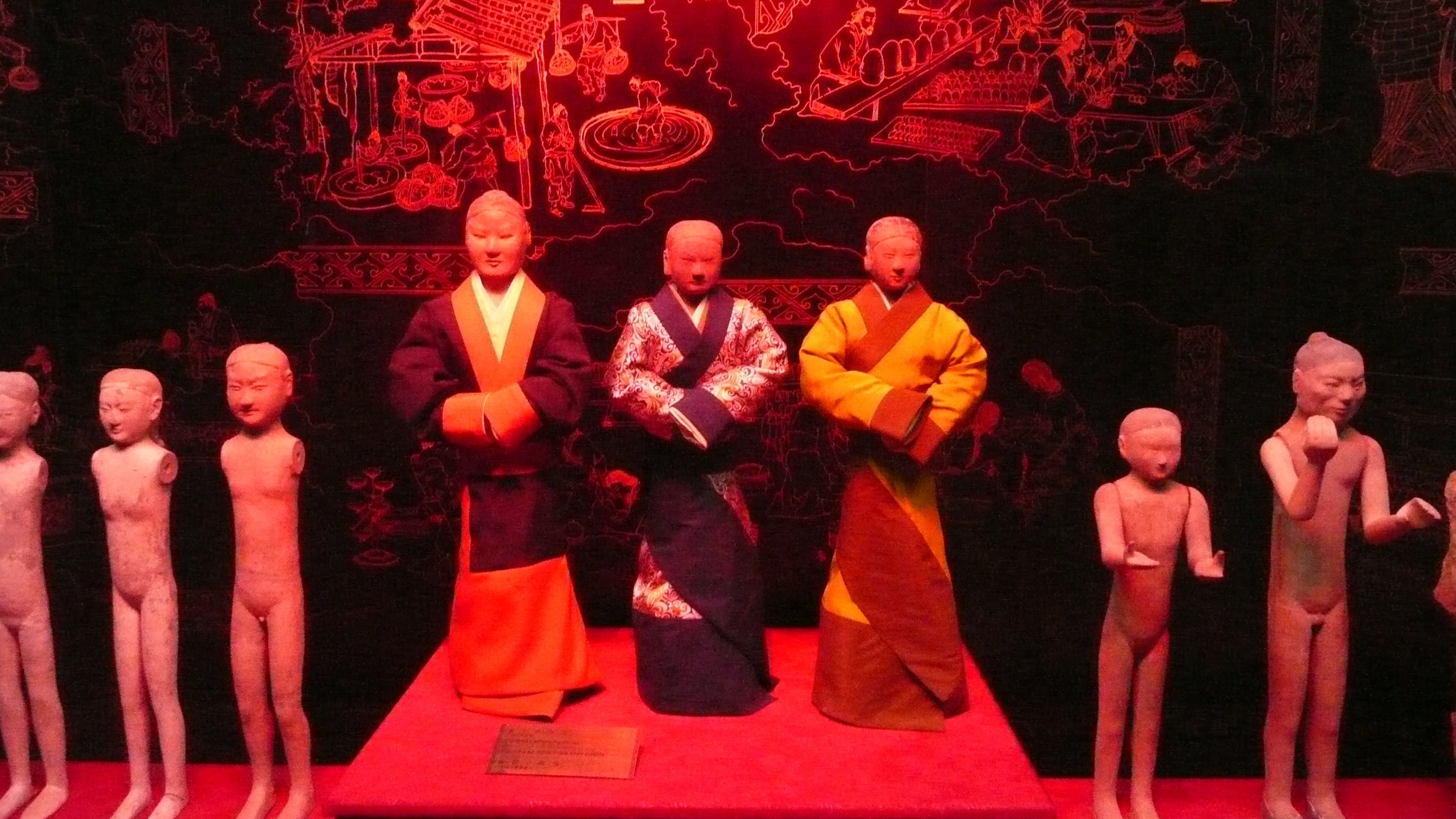 Han Yang Ling - Mausoleum of Jingdi, Han Emperor, Xianyang, near Xi'an